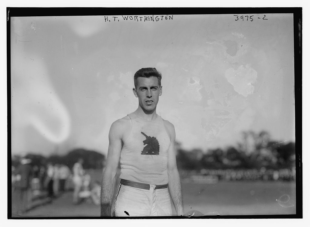 Bain News Service,, publisher. H.T. Worthington [between ca. 1915 and ca. 1920] 1 negative : glass ; 5 x 7 in. or smaller. Notes: Title from unverified data provided by the Bain News Service on the negatives or caption cards. Forms part of: George Grantham Bain Collection (Library of Congress). Format: Glass negatives. Repository: Library of Congress, Prints and Photographs Division, Washington, D.C. 20540 USA, General information about the Bain Collection is available at Higher resolution image is available (Persistent URL): Call Number: LC-B2- 3975-2